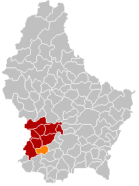 Own edit of Kanton CapellenLocatie.png